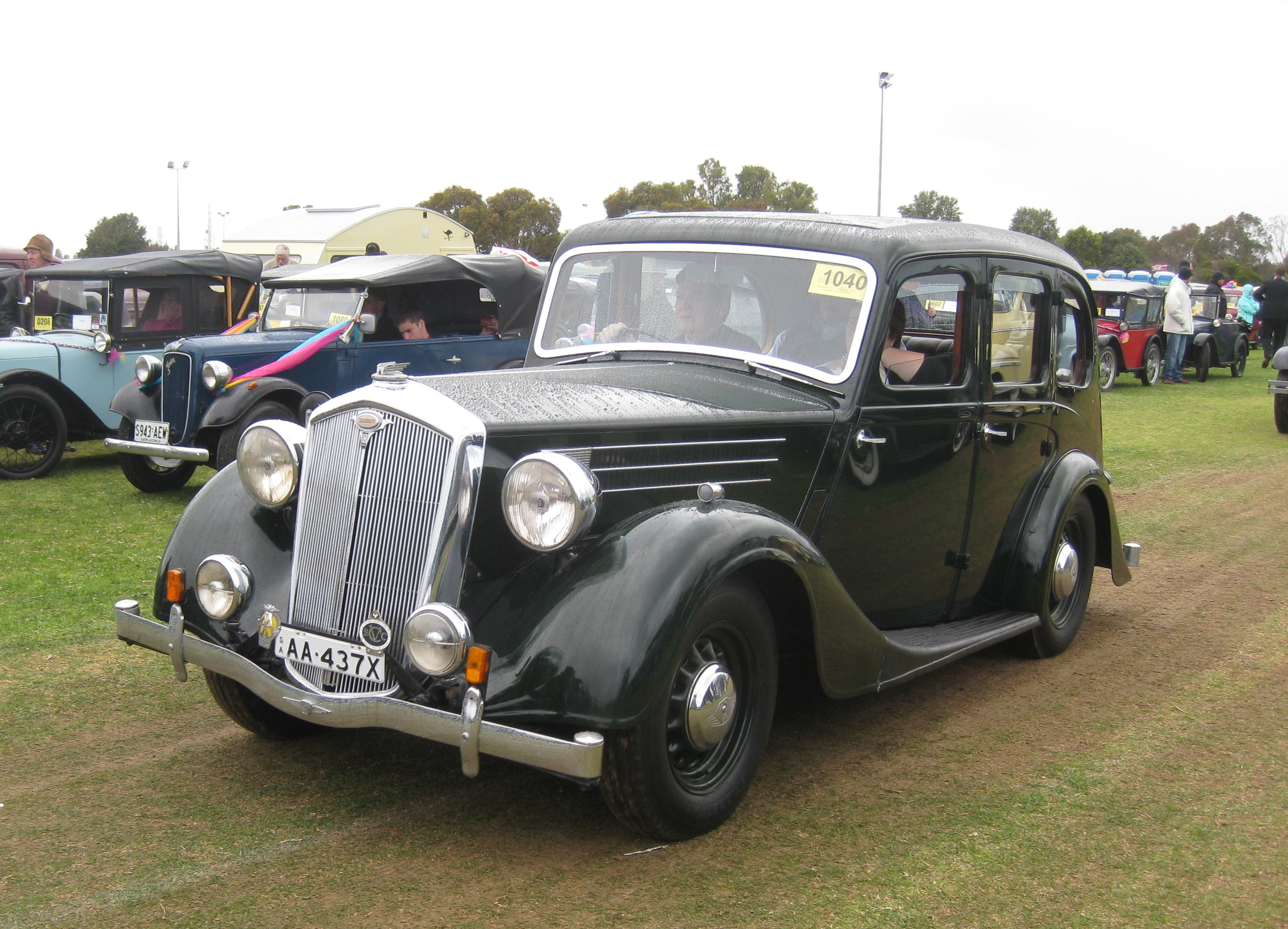 Wolseley 18/85 (1938 to 1948)